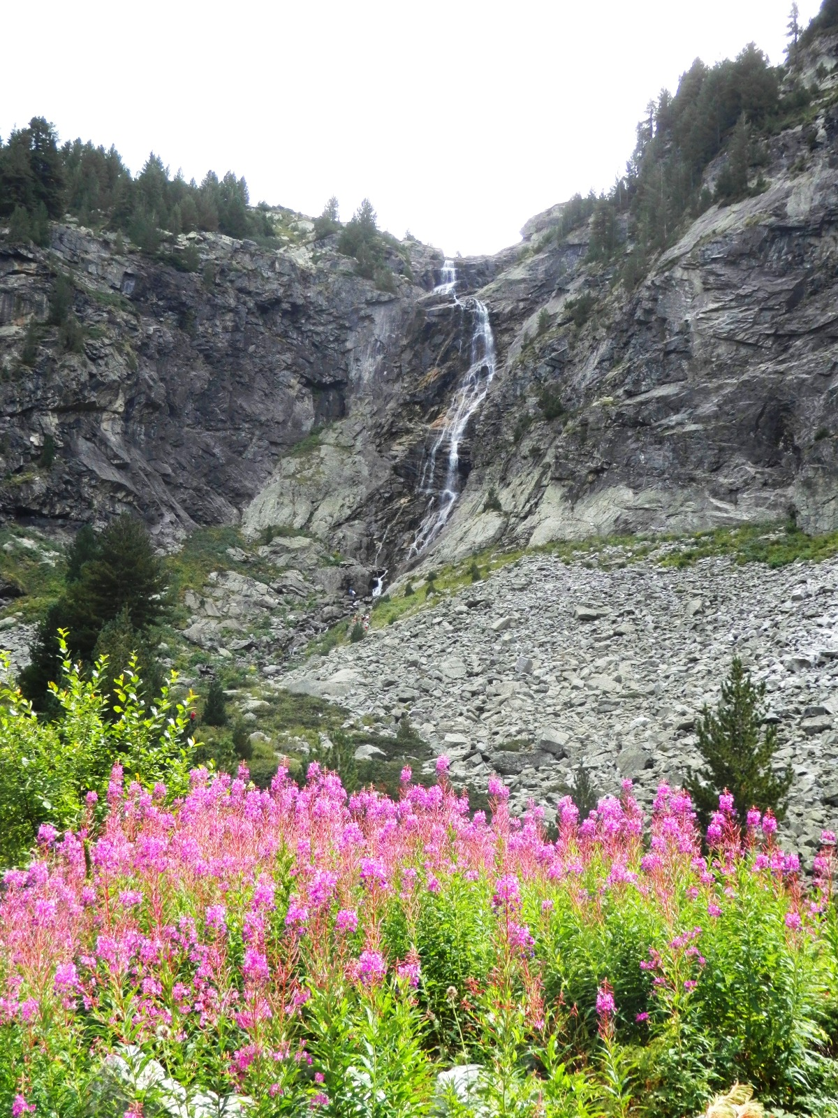 Fireweed at Skakavitsa Waterfall in the Rila Mountain in Bulgaria